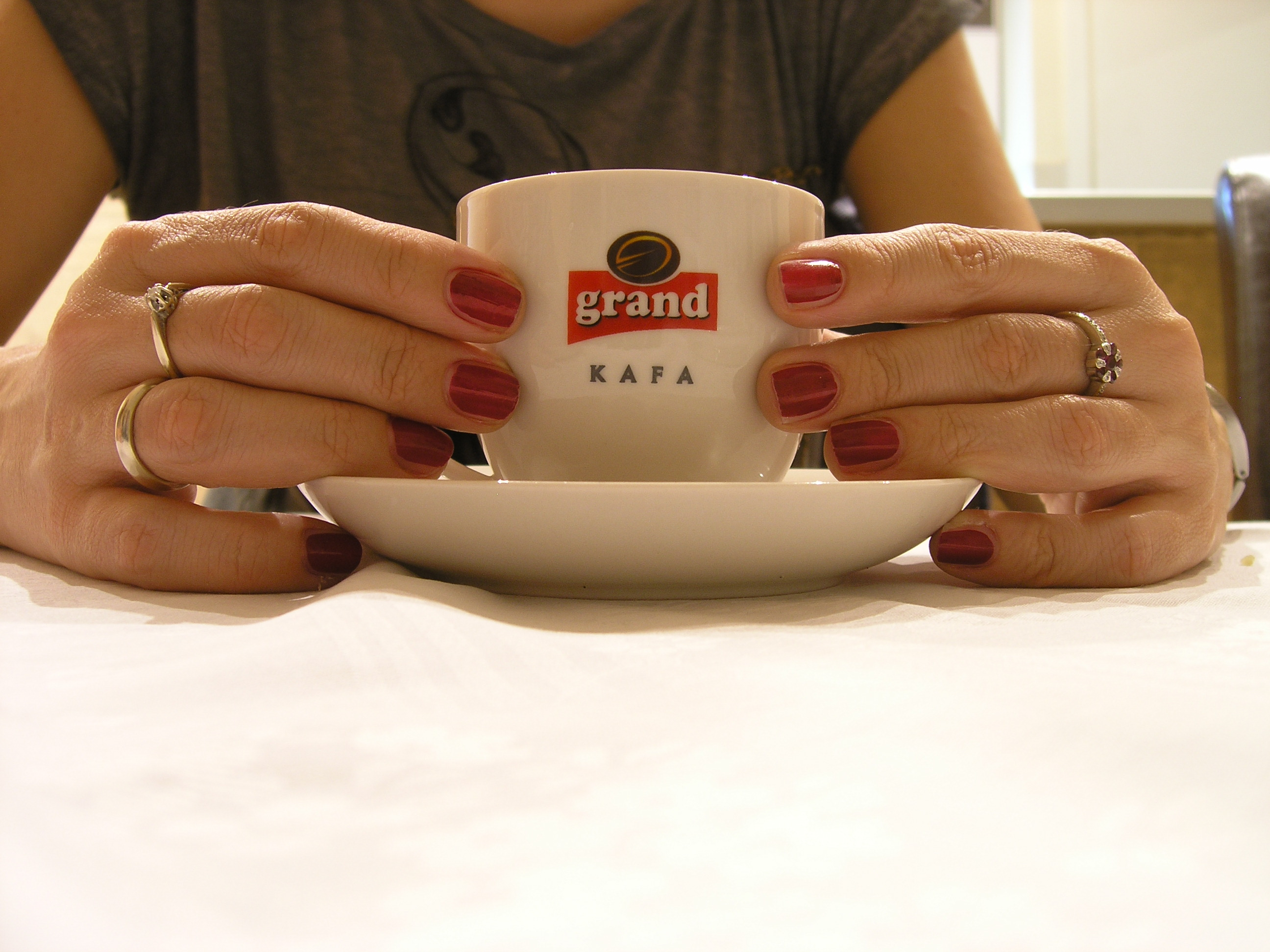 Coffee break in Belgrade, Serbia. Српски (ћирилица): Шоља Гранд кафе, Београд.